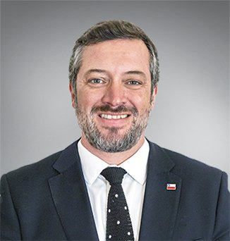 Sebastian Sichel como Ministro (2019)